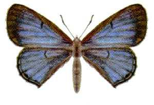 identifying features of Australian butterfly species wing pattern